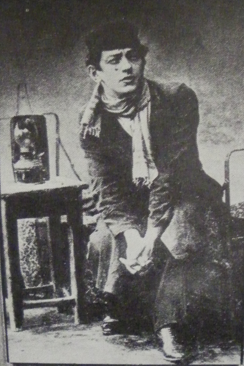 Julius Adler, Yiddish theater actor, in Nokhum Rakov's Talmud wise man